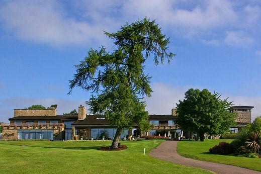 The Lodge, Celtic Manor Resort